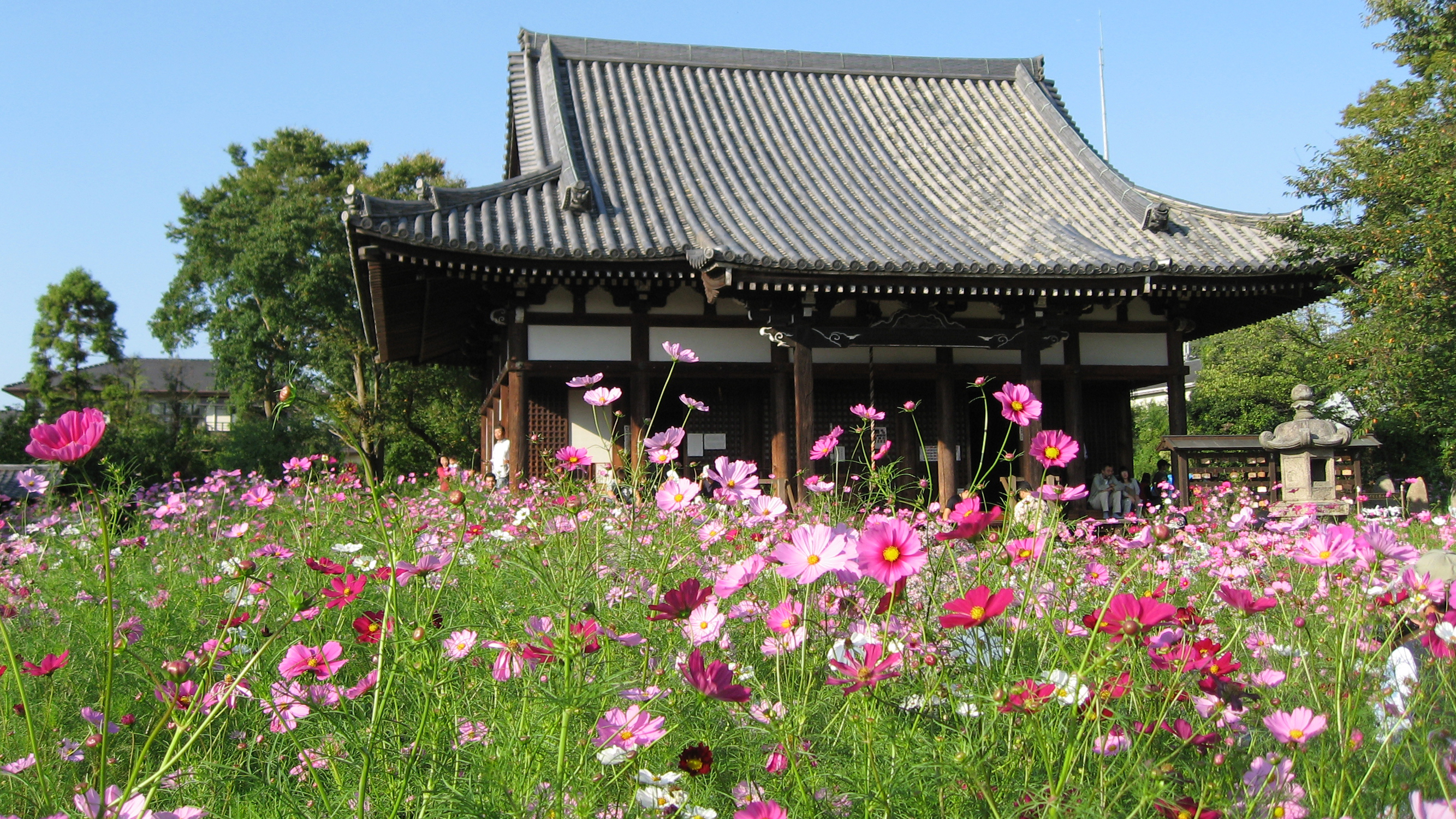 Cosmos Garden at Hannya-ji Hannyaji Nara-City Nara Pref., Japan.